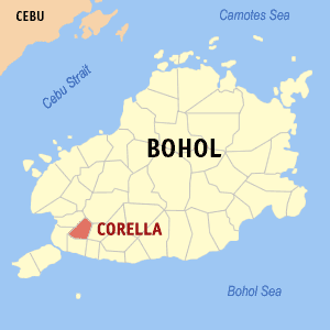 Map of Bohol showing the location of Corella